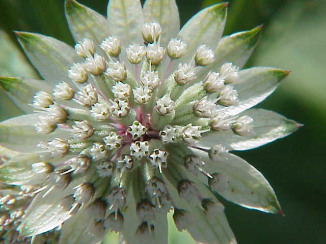 Species: Astrantia major Family: Umbelliferae Image No. 6